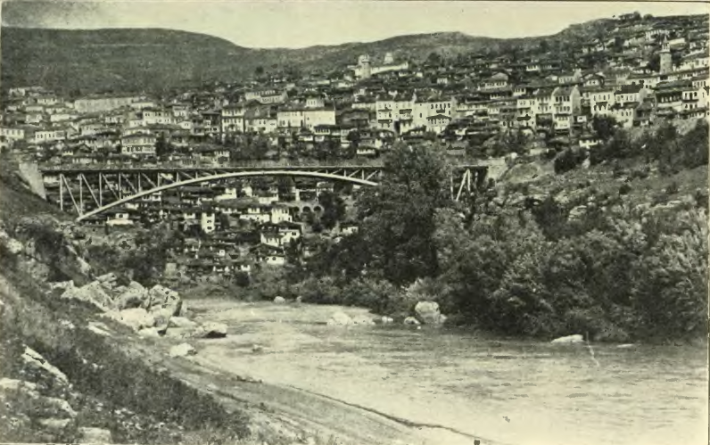 The old Bulgarian capital of Tarnovo circa 1914.